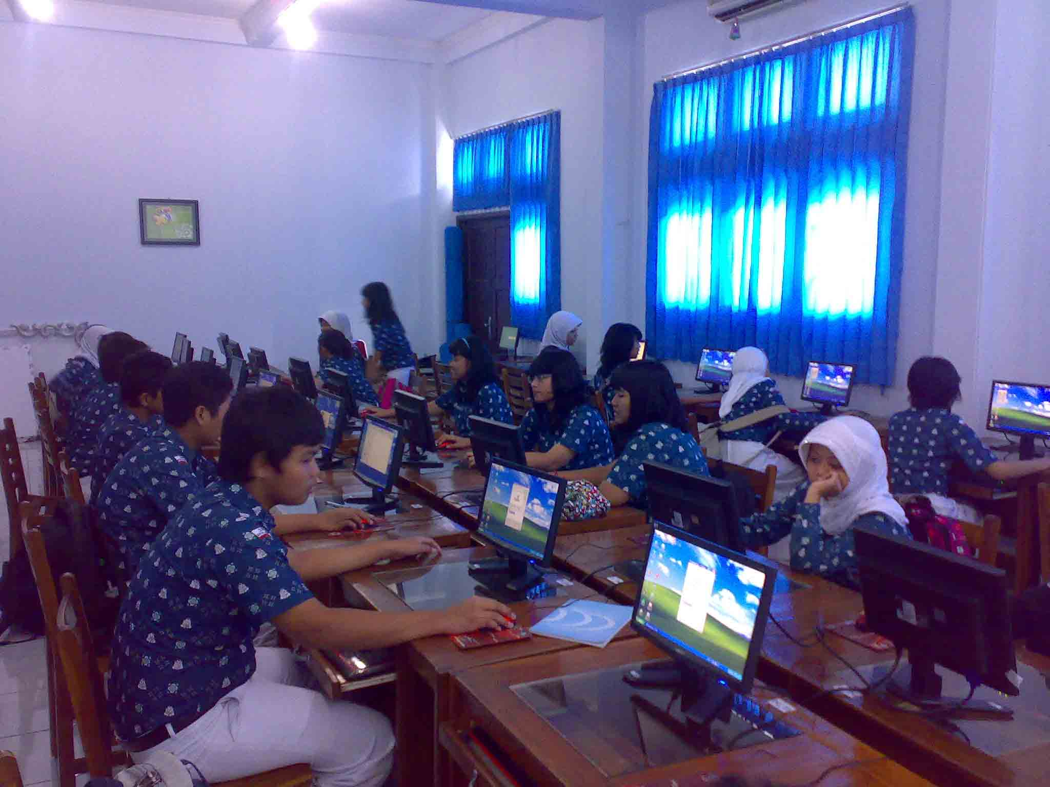 Computer laboratorium SMA 3 Semarang